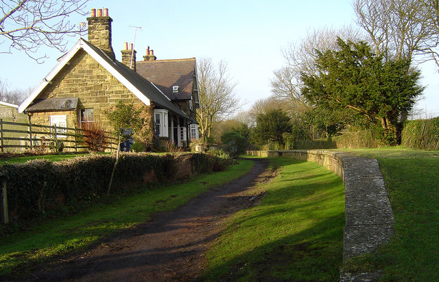 Staintondale Station. One of the old stations on the Scarborough to Whitby railway line. More info on the line can be found here